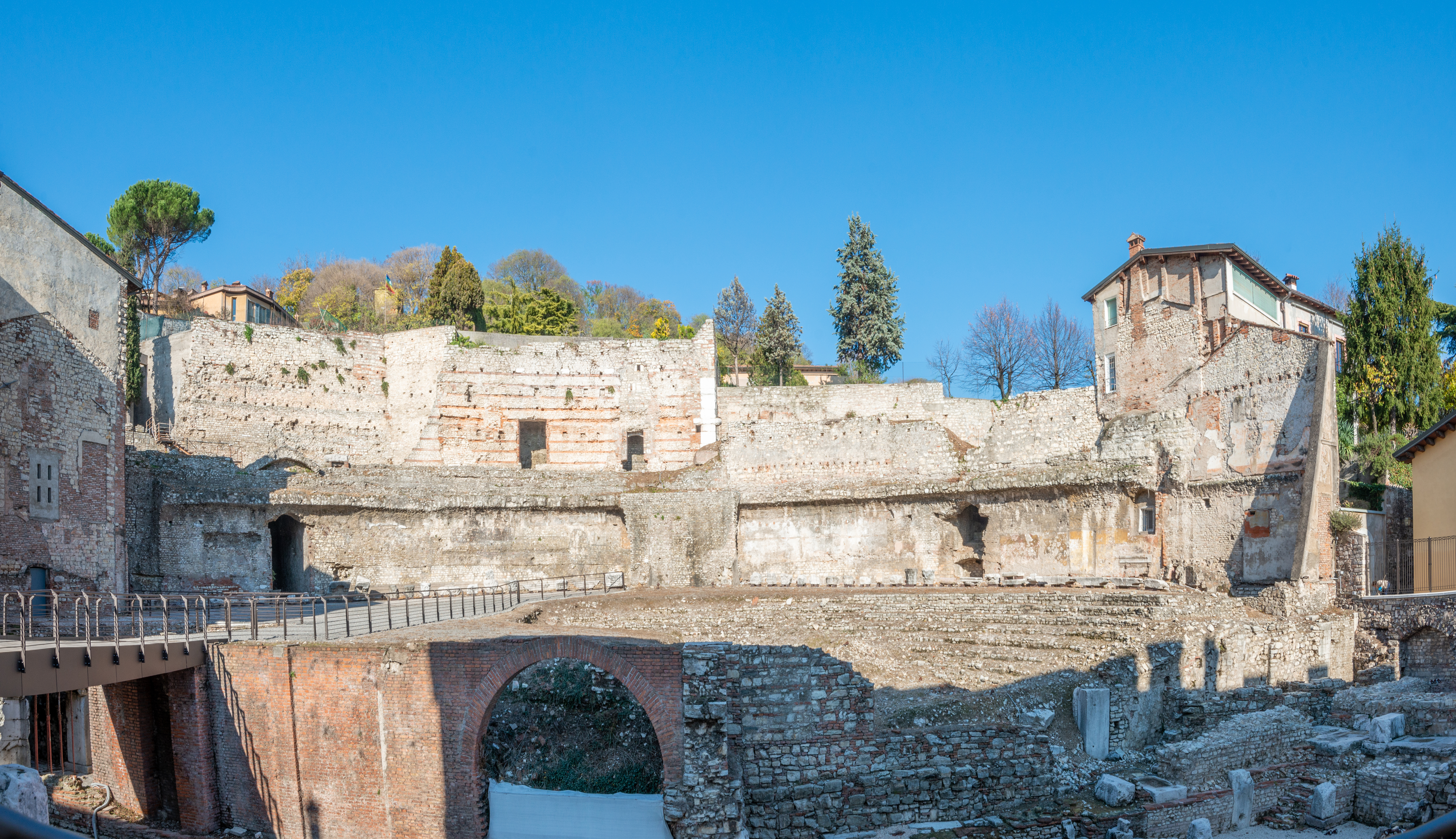 The Tempio Capitolino on Piazza del Foro square in Brescia.